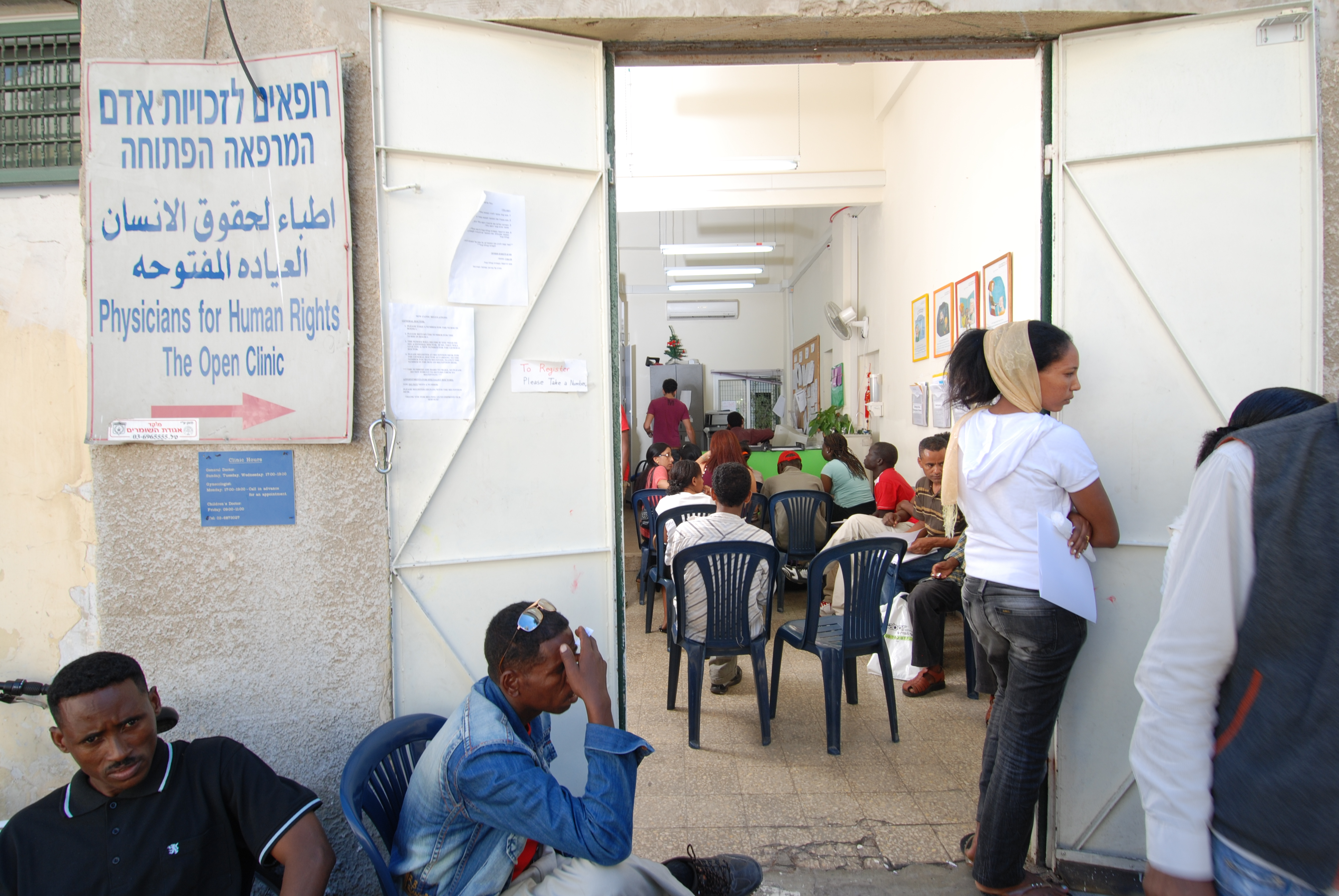 The Open Clinic for migrant workers in Jaffa